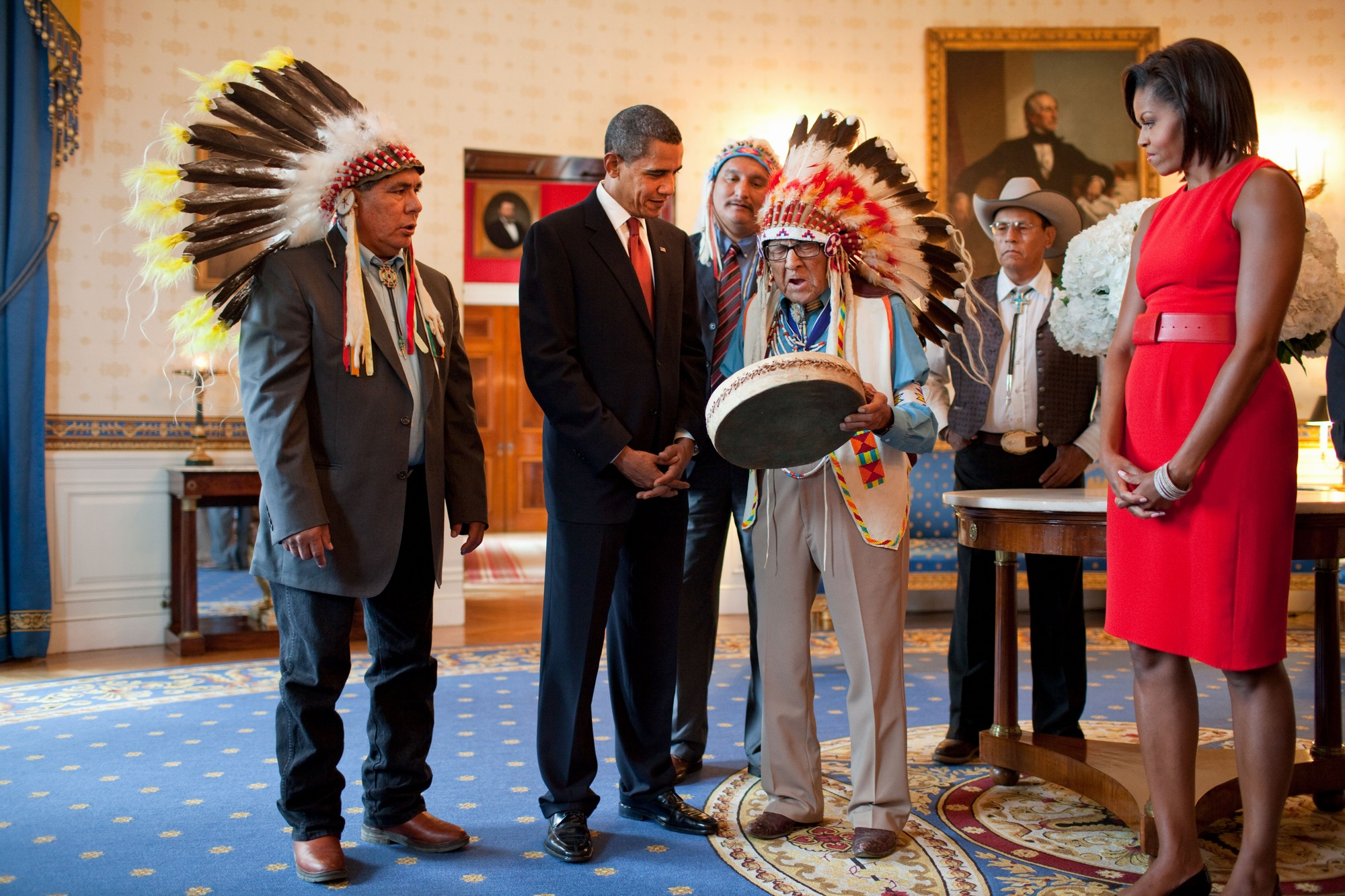 A group photo of Barack Obama, Joe Medicine Crow, and Michelle Obama amongst other persons.